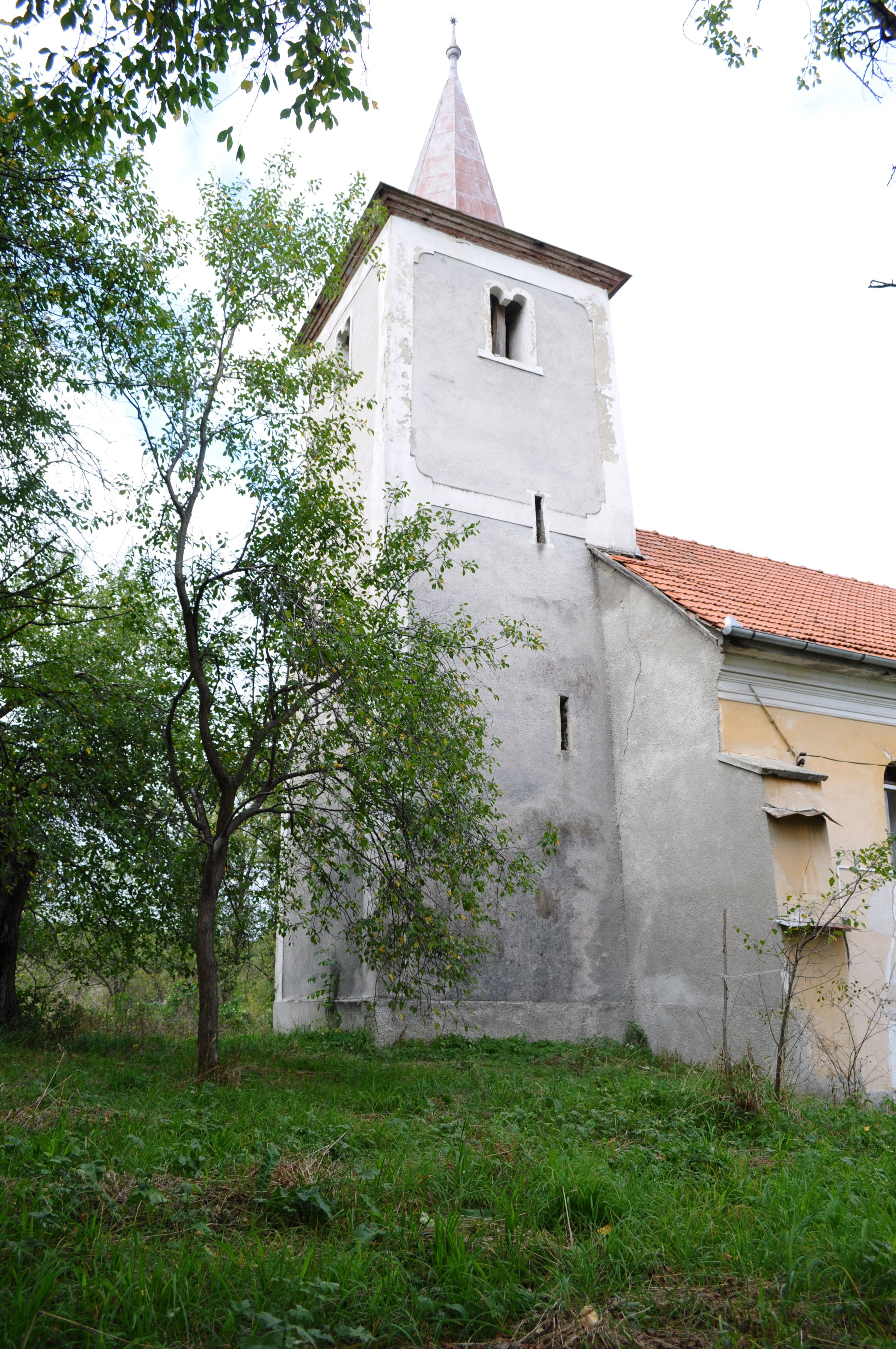 the Hungarian Calvinist church in Bădești/Bádok, Romania